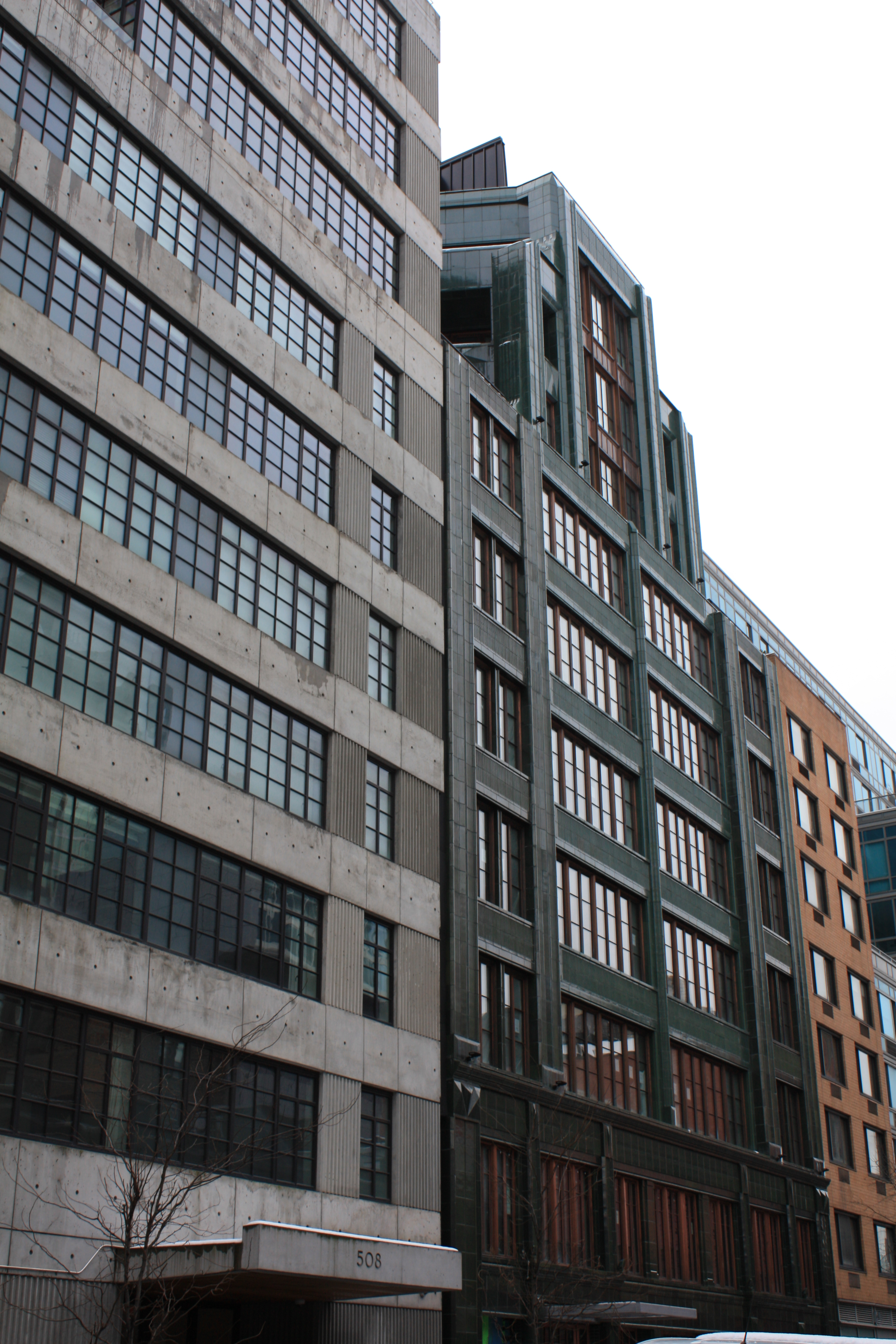 508 W 24th & Fitzroy from East February 2019